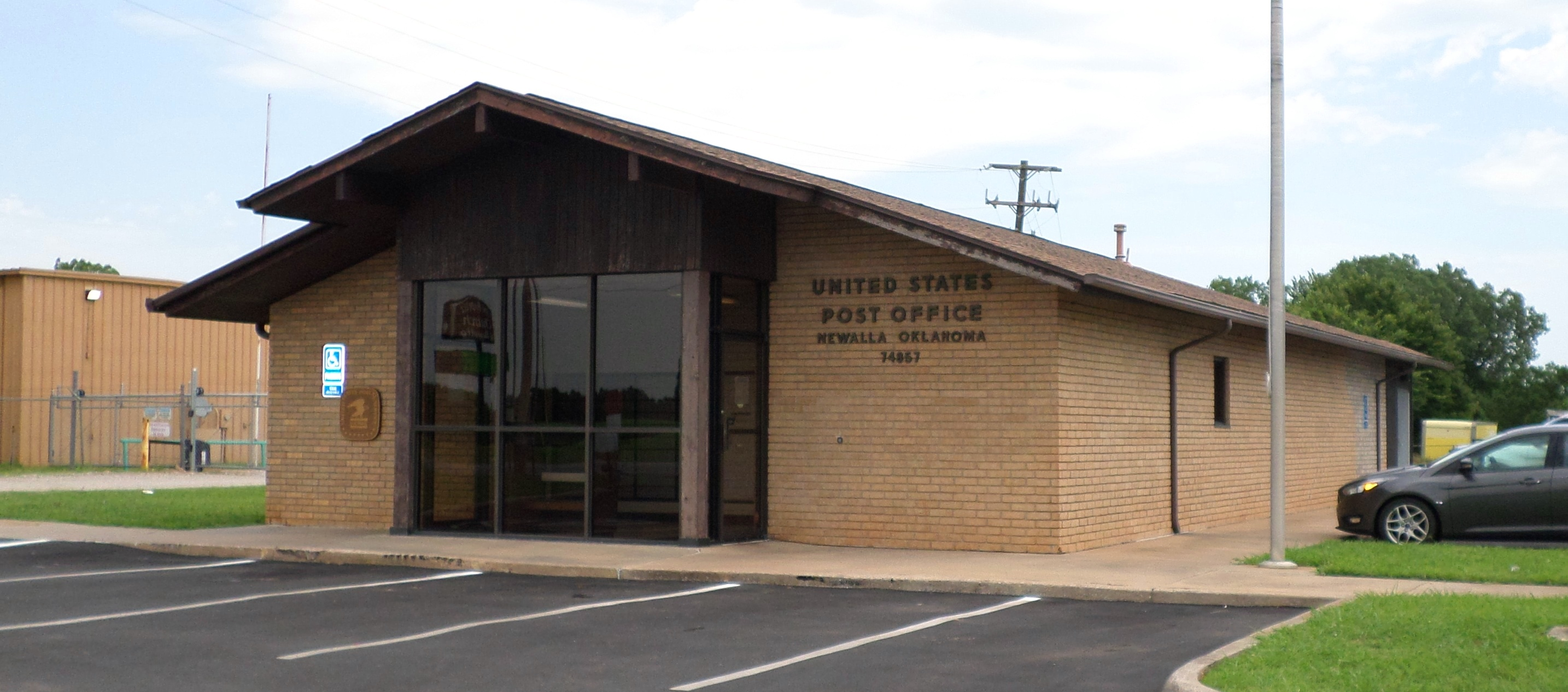 The Newalla Post Office, located at 5900 S. Harrah Rd., Newalla, OK.